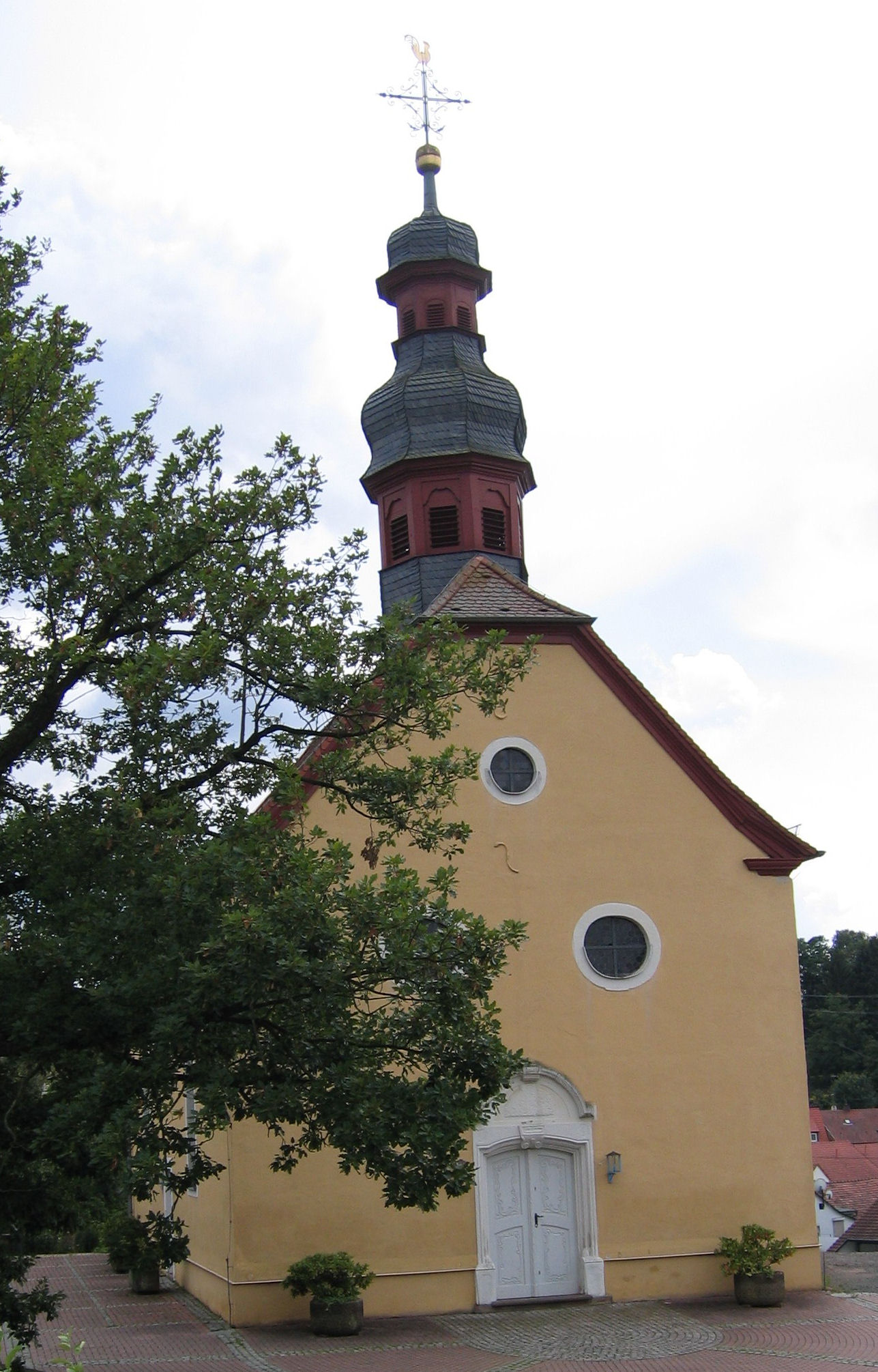 view of Sembach, Germany